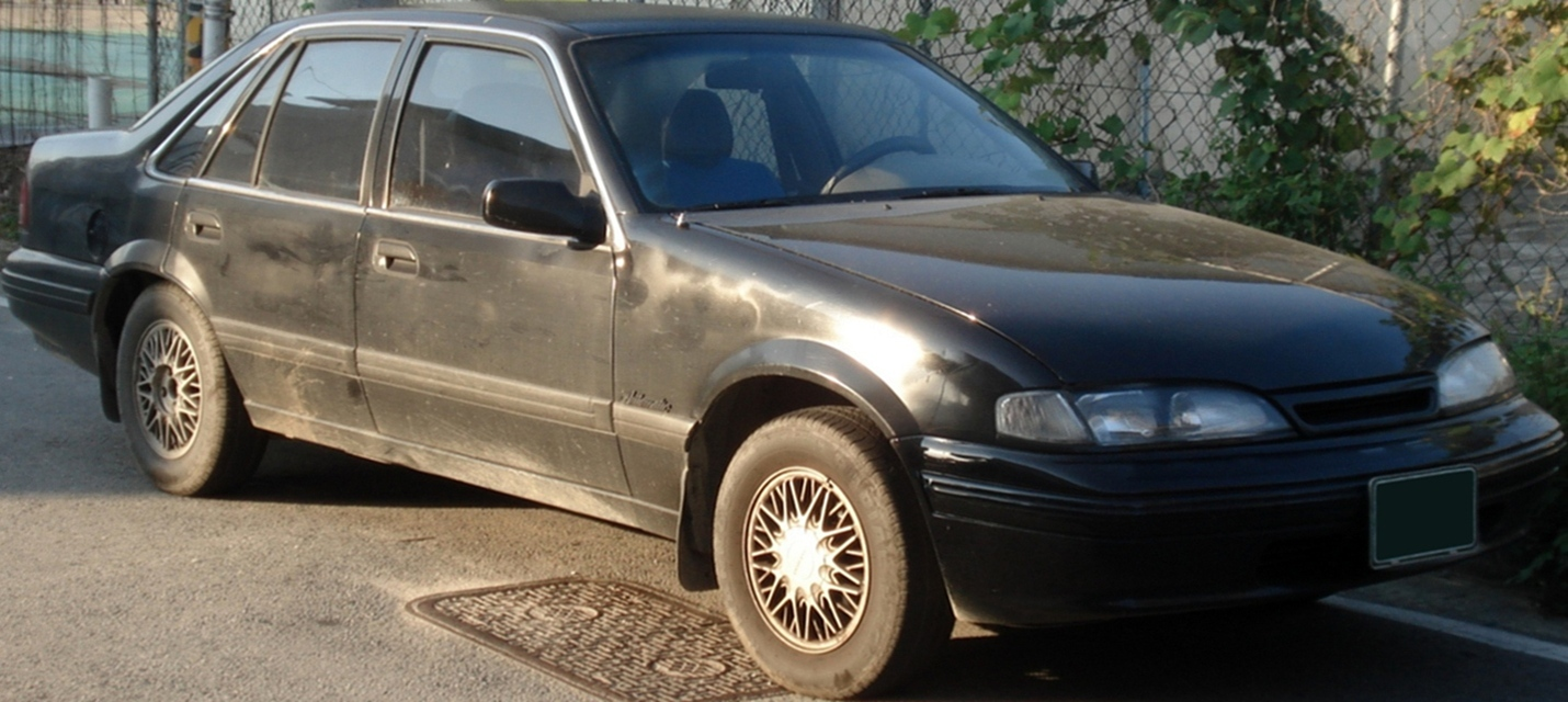 Daewoo Prince